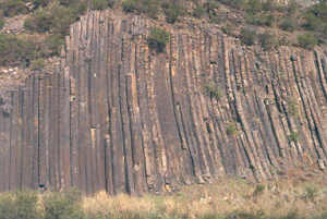 Organ pipes at the Organ pipes National Park, Victoria, Australia